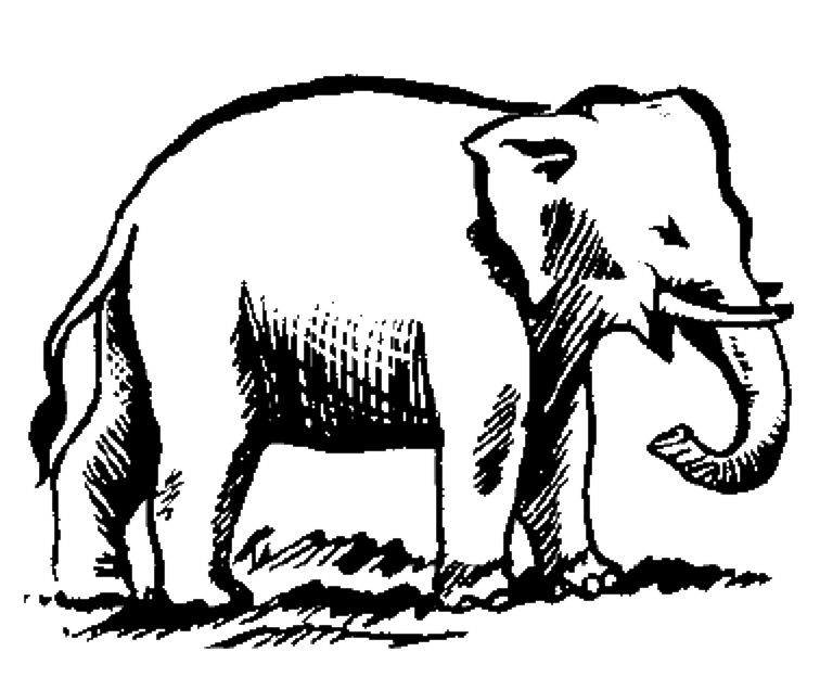 One of the simple election symbols to be printed on ballots in the Indian general election 1951/52.